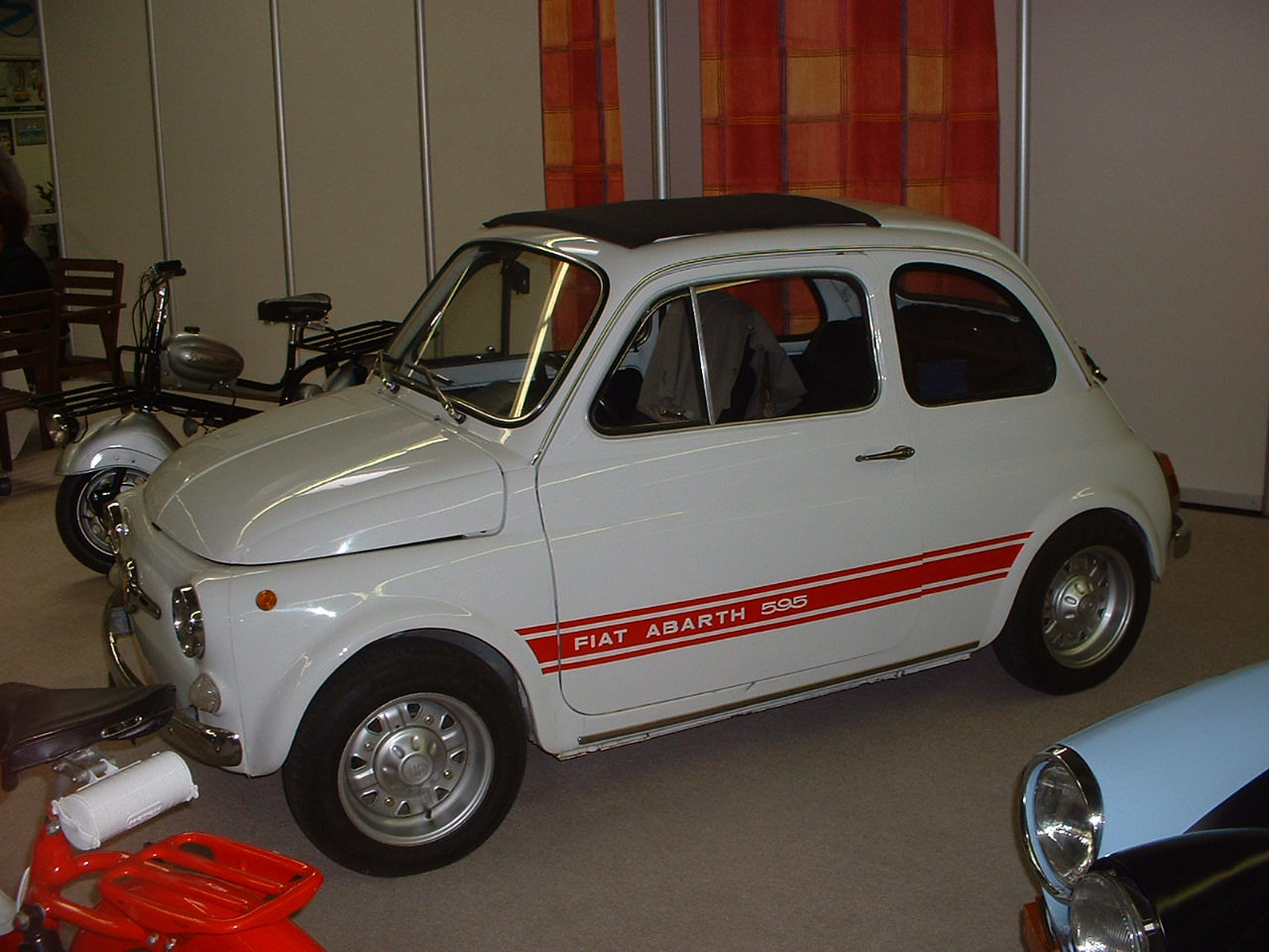 Race-ready Fiat 500 derivative spotted at Techno Classica Essen in April 2007.